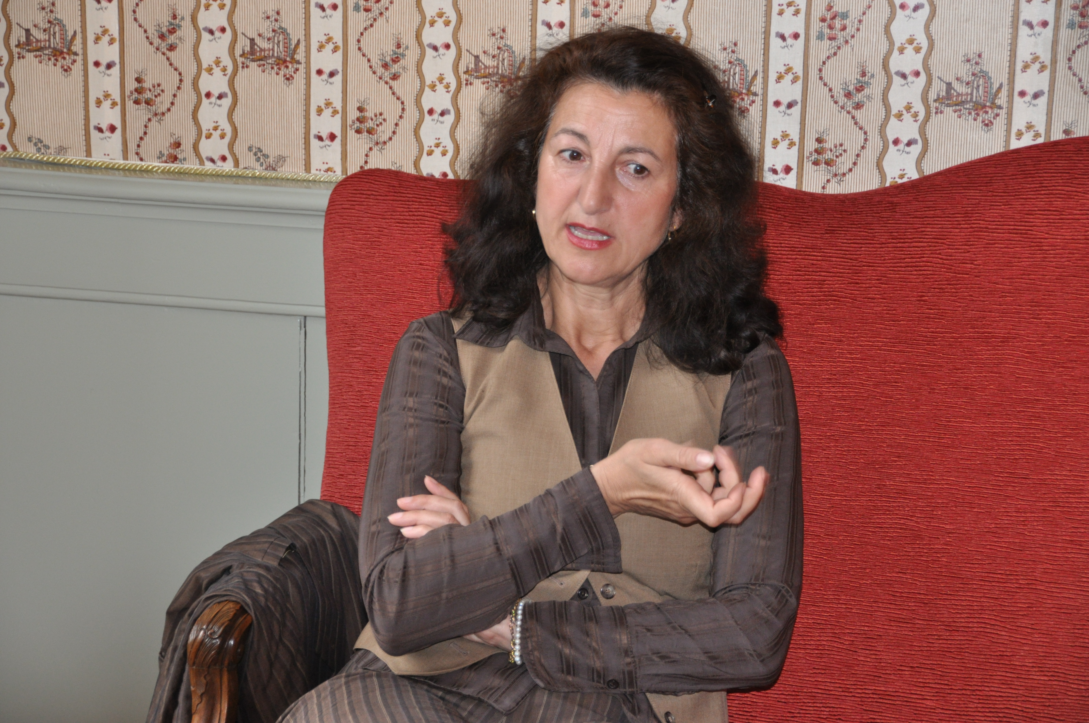 Necla Kelek is a German feminist and social scientist of Turkish descent.